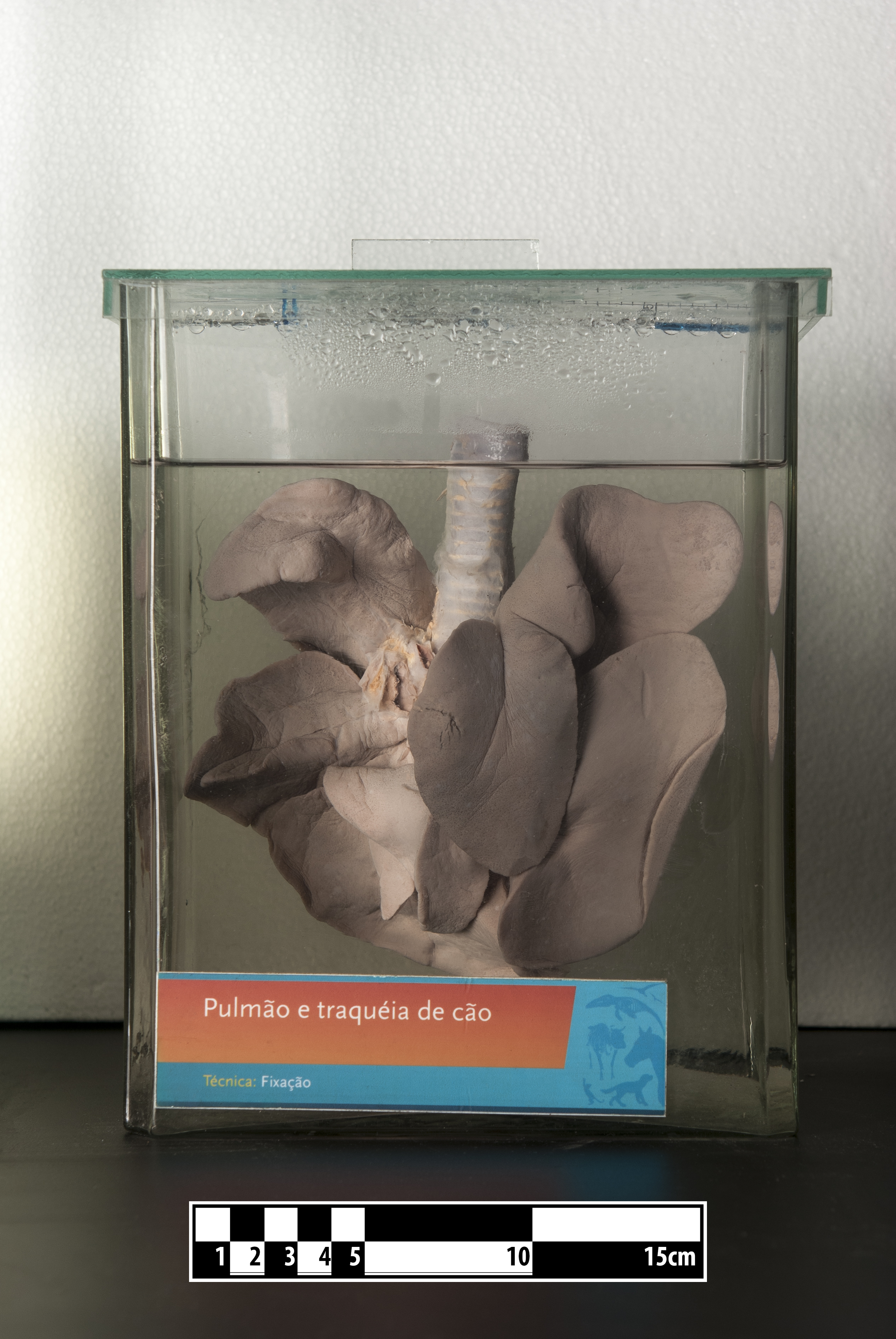 Lungs and trachea of canid. Canis lupus familiaris Technique of glycerination - piece showing a caudodorsal view of the lungs and trachea of a dog on display at the Museum of Veterinary Anatomy, FMVZ USP. This file was published as the result of a partnership between the Museum of Veterinary Anatomy FMVZ USP, the RIDC NeuroMat and the Wikimedia Community User Group Brasil. This GLAM project is reported. Photography: Museum of Veterinary Anatomy FMVZ USP. Author: Wagner Souza e Silva.